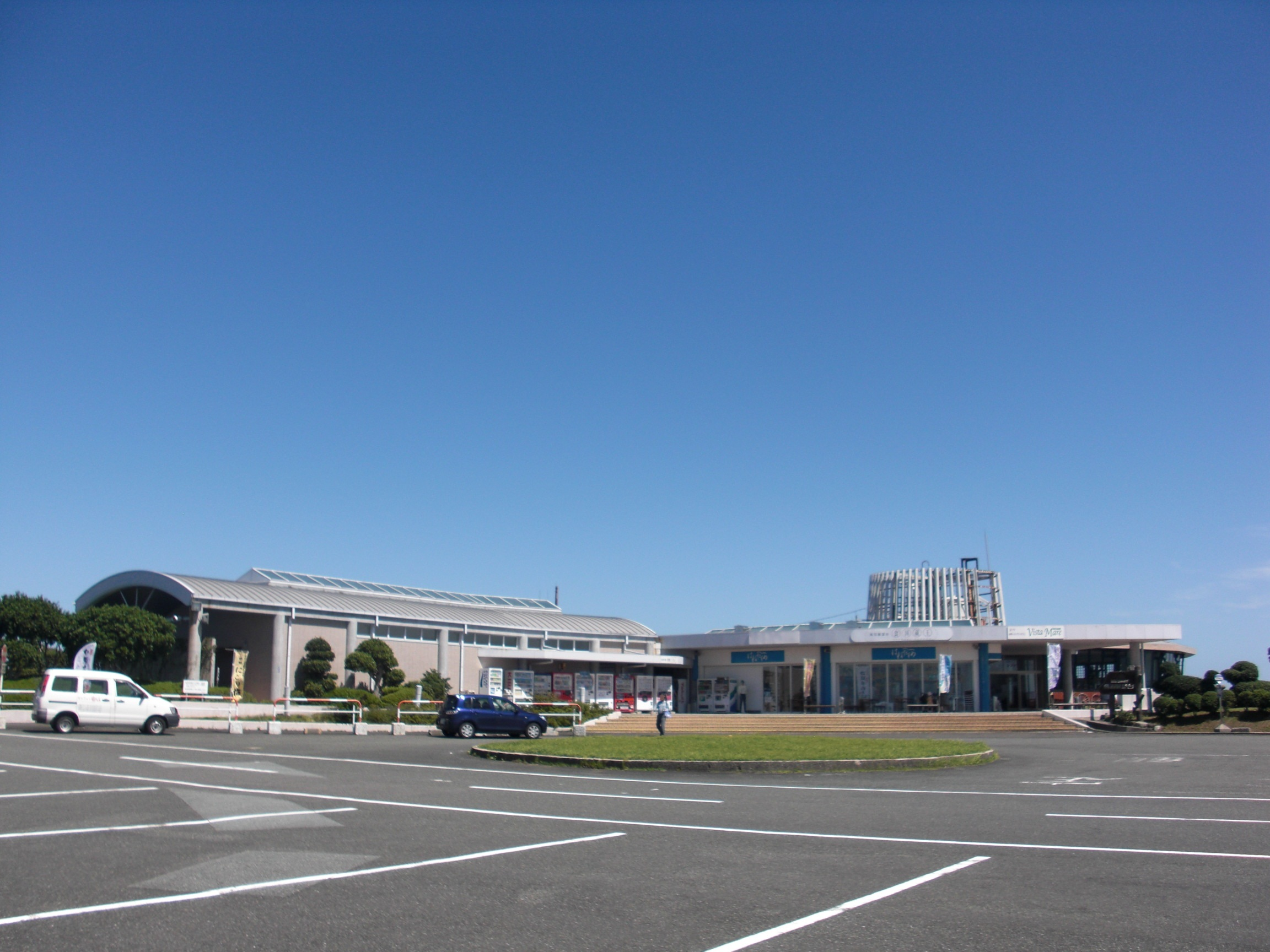 This is the building called "Osukuni-Kuraoh". It is in Toba, Mie, Japan.